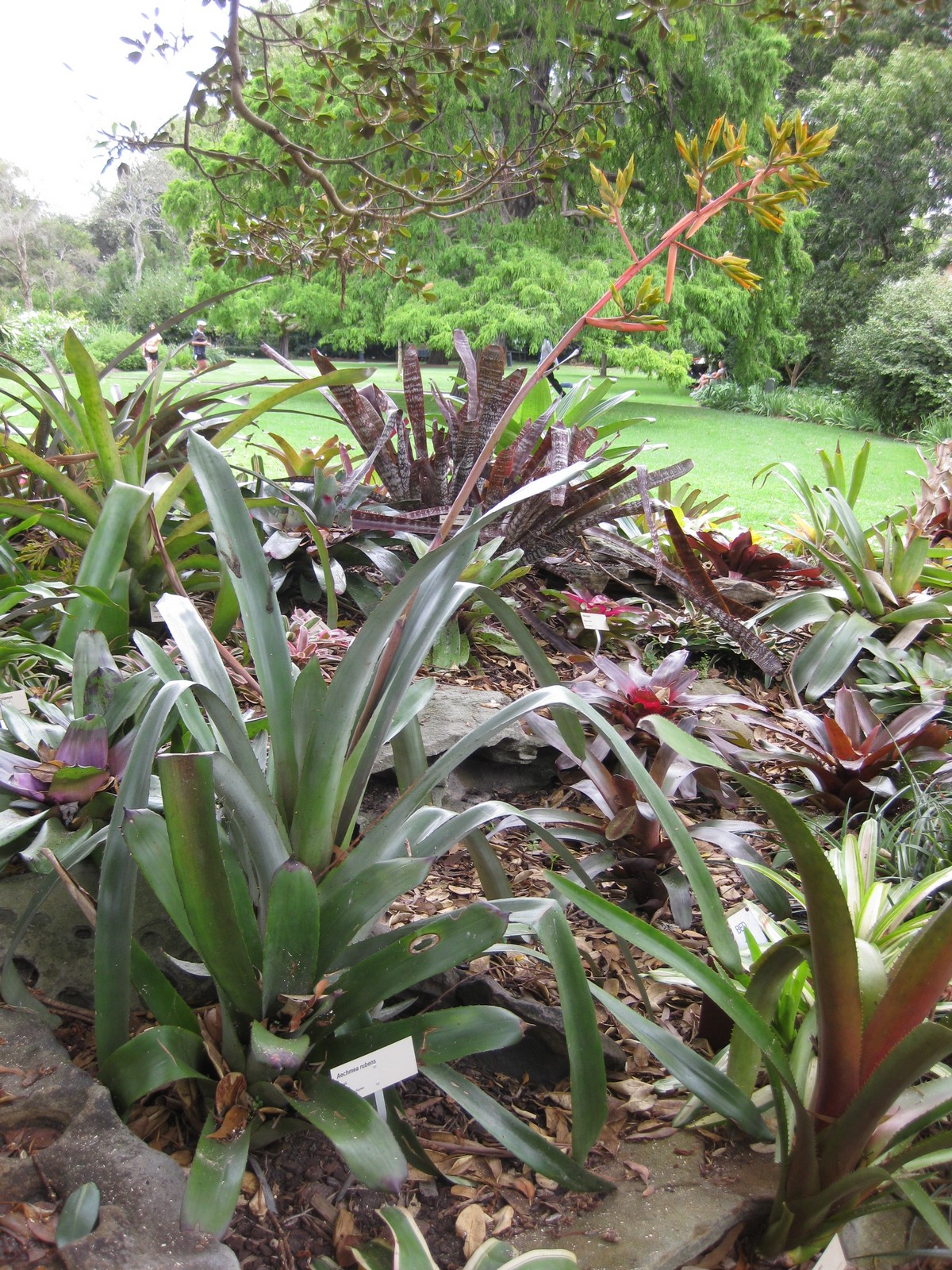 Photographed at the Royal Botanic Gardens Sydney (Australia) in January